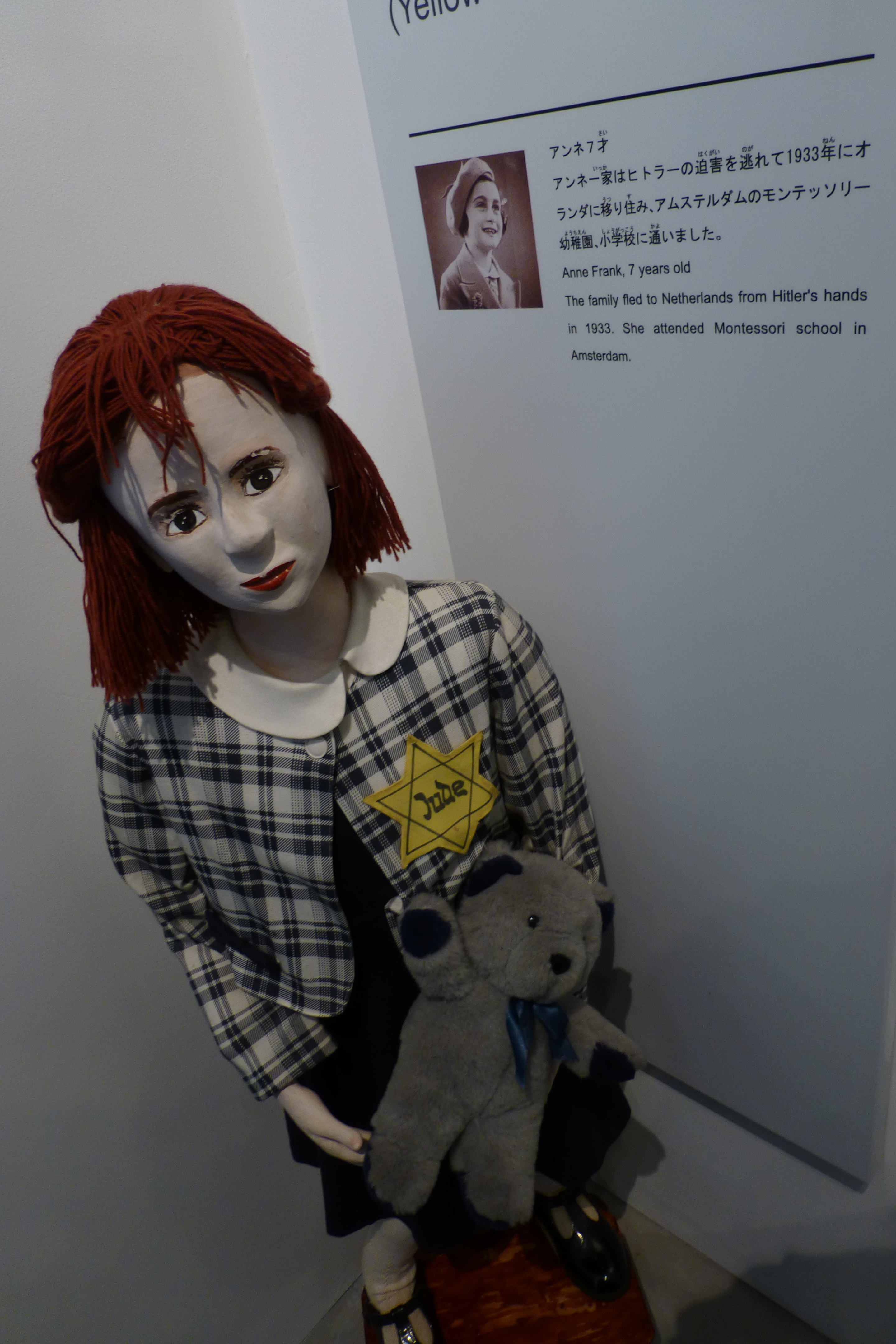 The Holocaust Education Center in Fukuyama, inaugurated on June 17, 1995, is dedicated to the memory of 1.5 million children who perished in the Holocaust. It has the distinction of being the first institution in Japan devoted to Holocaust education.